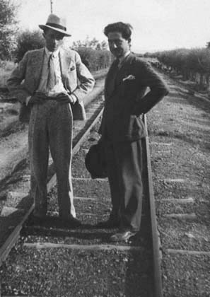 Sadeq Hedayat and Mojtaba Minavi, 1933, near Tehran